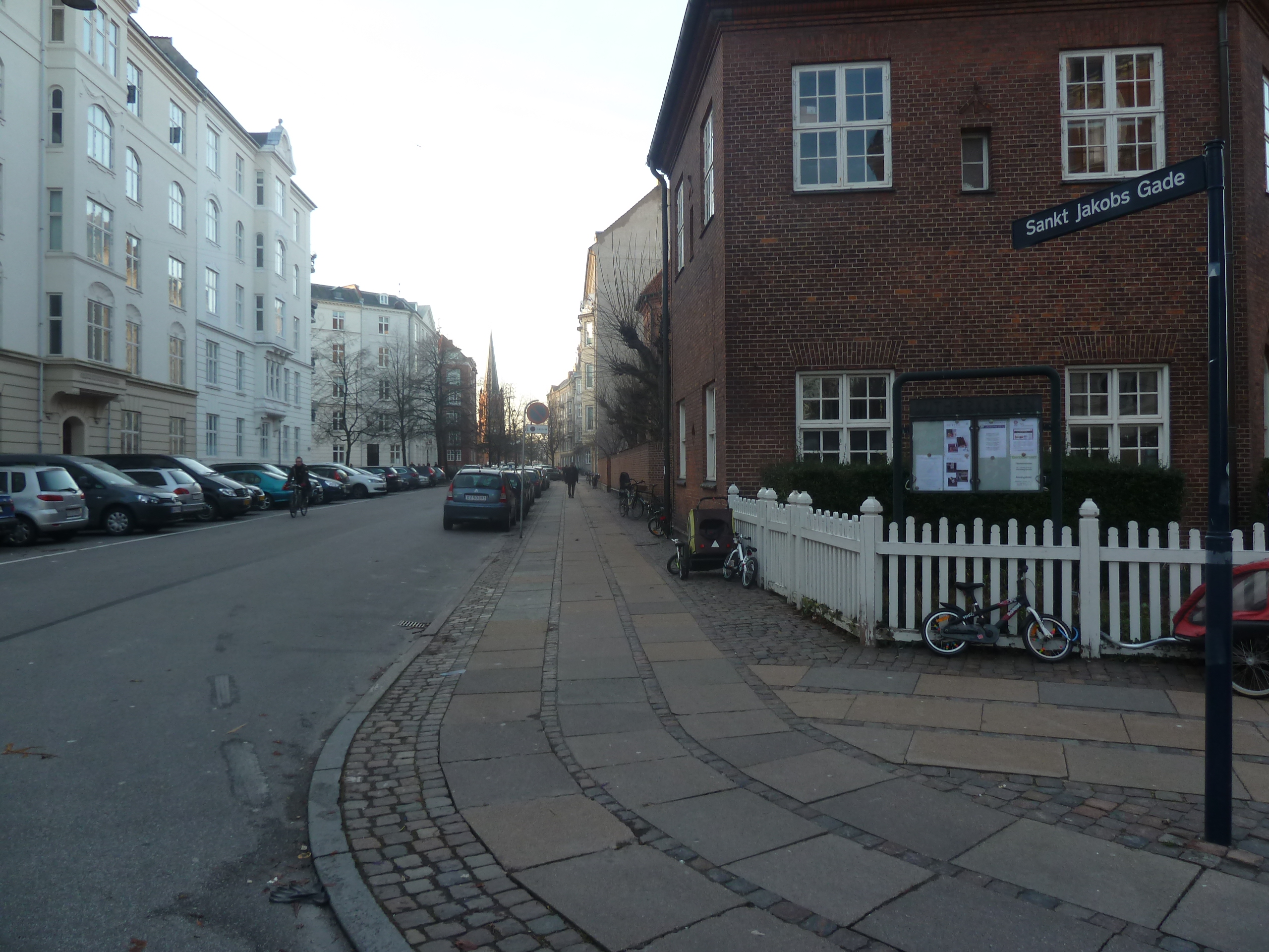 The street Sankt Jakobs Gade in Østerbro in Copenhagen. The street connect two churches, Lutherkirken at the right and Sankt Jakobs Kirke at the end of the street.